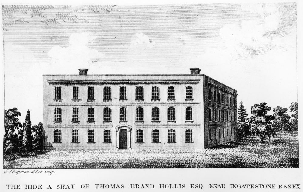 The Hyde, country house near Ingatestone, Essex, England, residence of Thomas Brand Hollis.